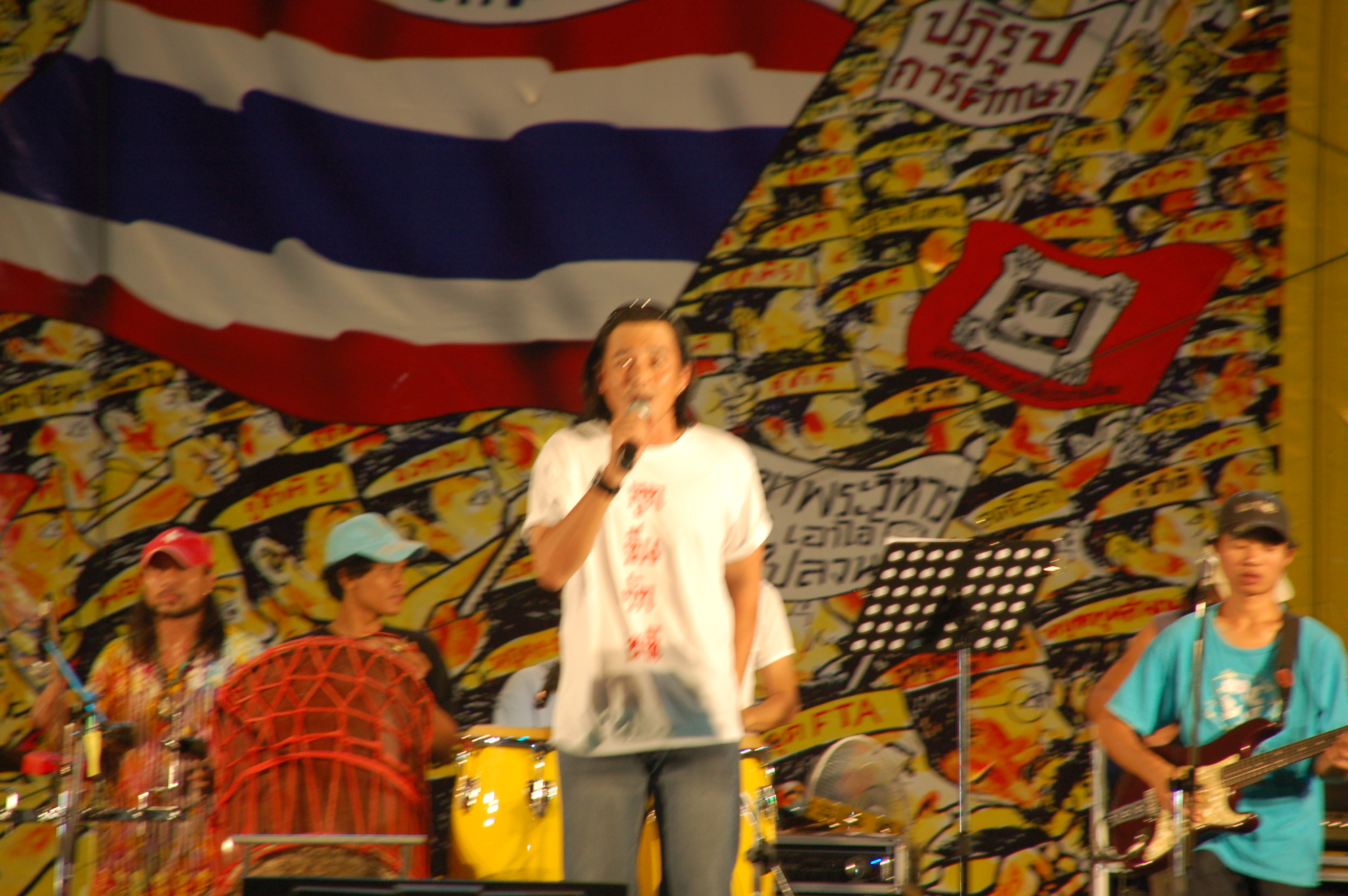 Sarunyu Wongkrachang on stage with Zuzu at Makkawan bridge